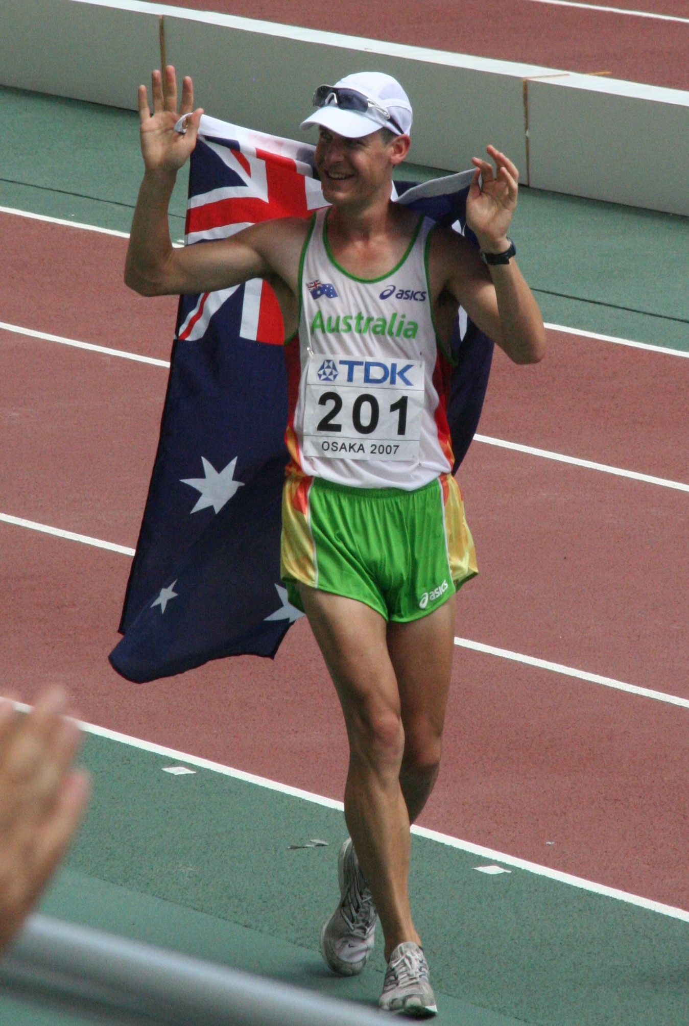 World Athletics Championships 2007 in Osaka - 50 km race walk winner Nathan Deaks celebrates his victory